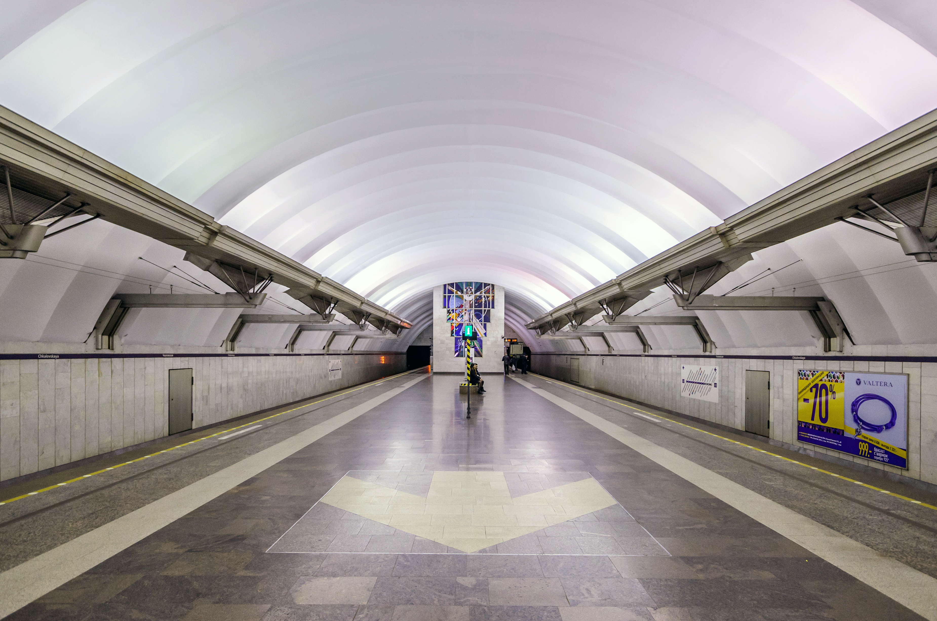 Chkalovskaya station of Saint Petersburg Subway